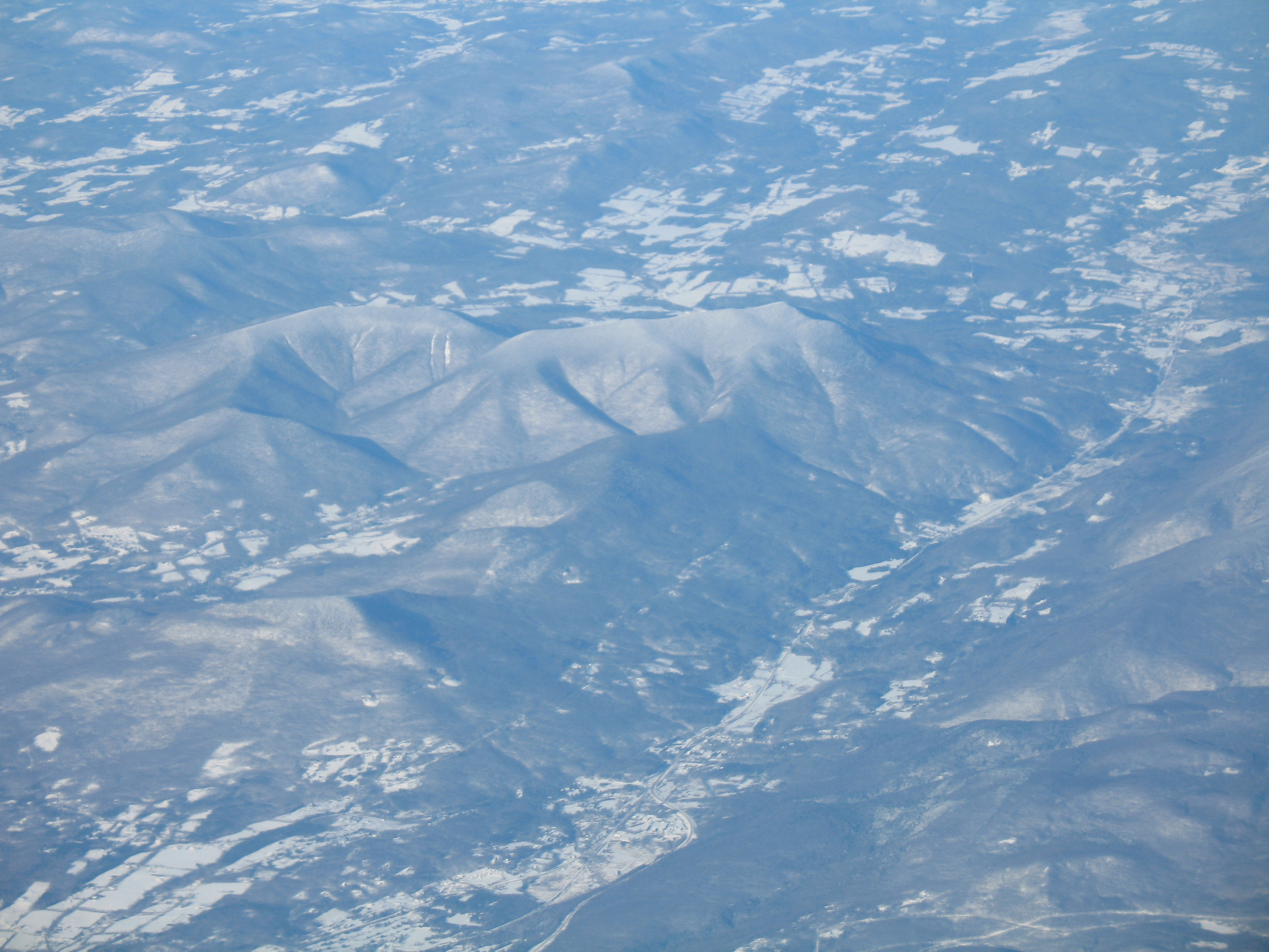 Picture of Dorset Mountain (Vermont, USA) from a plane southeast of the mountain.